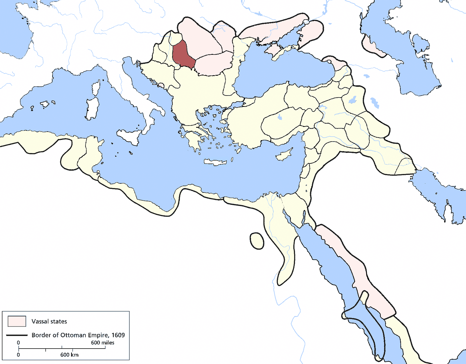 Temesvar Eyalet, Ottoman Empire (1609). Source: Encyclopedia of the Ottoman Empire at Google Books By Gábor Ágoston, Bruce Alan Masters